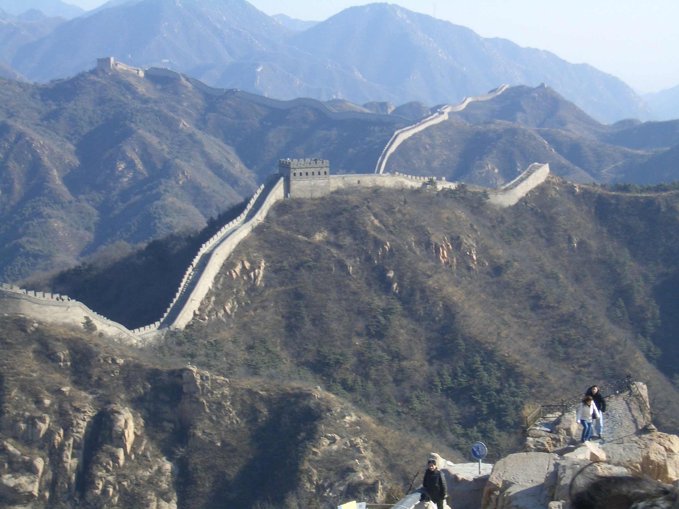 Great Wall of China, near to Beijing, China